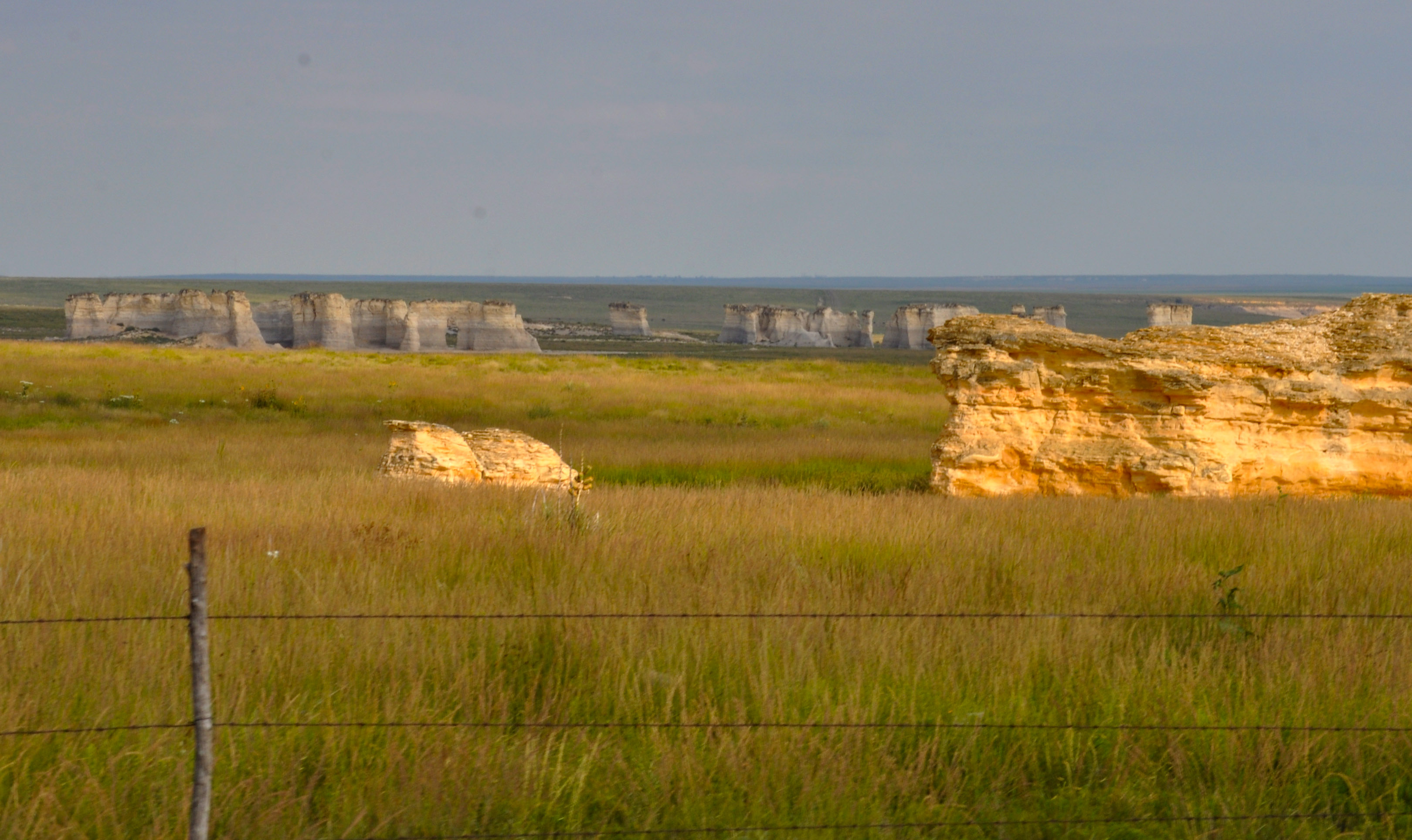 Monument Rocks, one of the Eight Wonders of Kansas